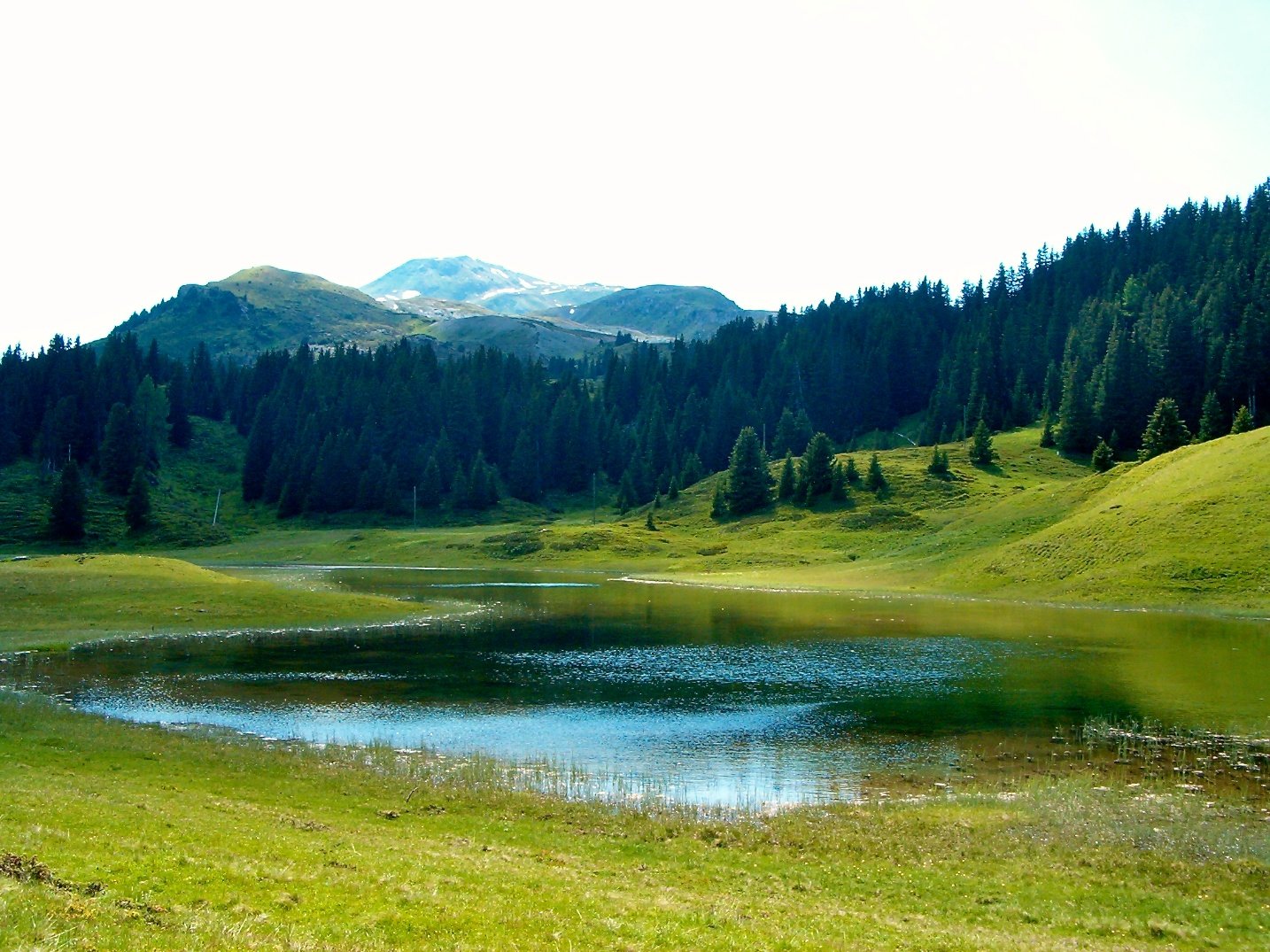 lake "Unterer Prätschsee" near Arosa, Switzerland